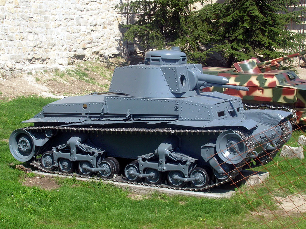 Panzer 35, Belgrade Military Museum, Serbia. Author of the picture is user Marko M.